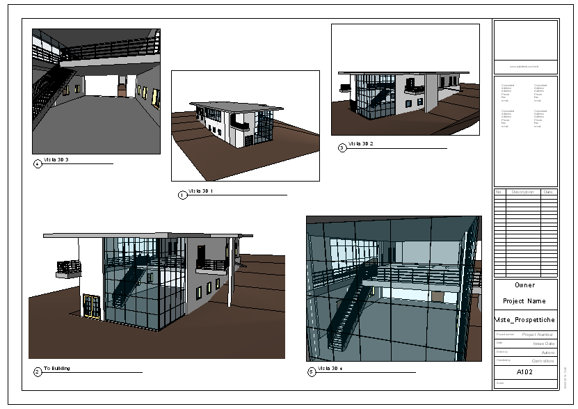 Drawings of a recent project of mine, entirely designed by myself. A allow this work to be published, freely used and downloaded.